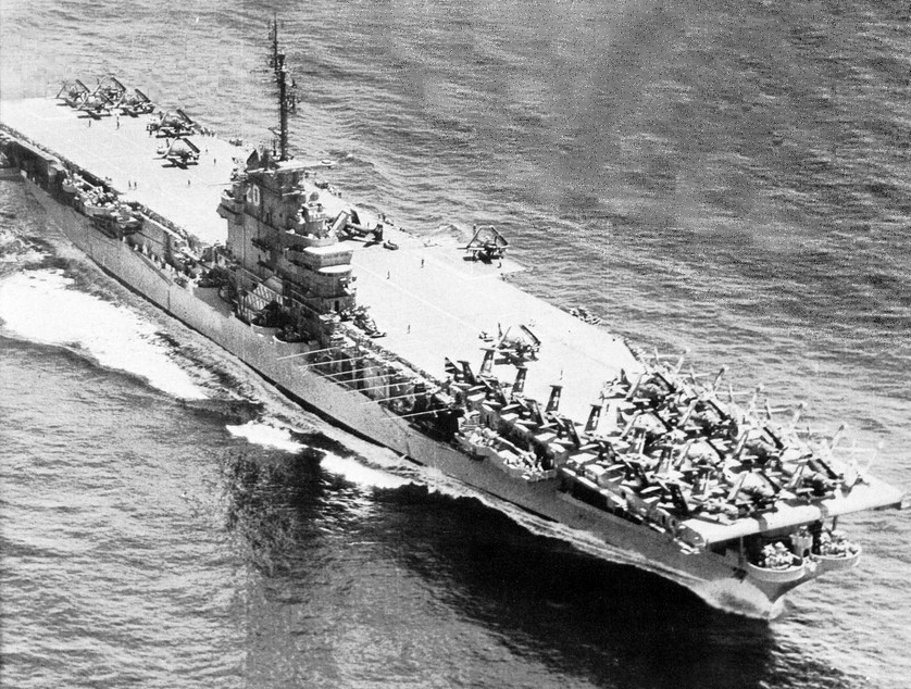 The U.S. Navy aircraft carrier USS Bennington (CVA-20) underway after her SCB-27A modernisation. She was deployed with Carrier Air Group 7 (CVG-7) to the North Atlantic and the Mediterranean Sea from 16 September 1953 to 21 February 1954.